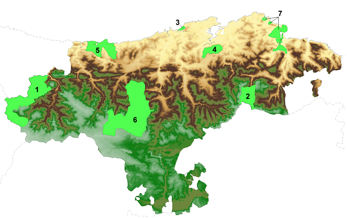 Natural and national parks of Cantabria (Spain): 1. Picos de Europa National Park 2. Collados del Asón Natural Park 3. Dunas de Liencres Natural Park 4. Macizo de Peña Cabarga Natural Park 5. Oyambre Natural Park 6. Saja-Besaya Natural Park 7. Santoña, Victoria and Joyel Marshes Natural Park